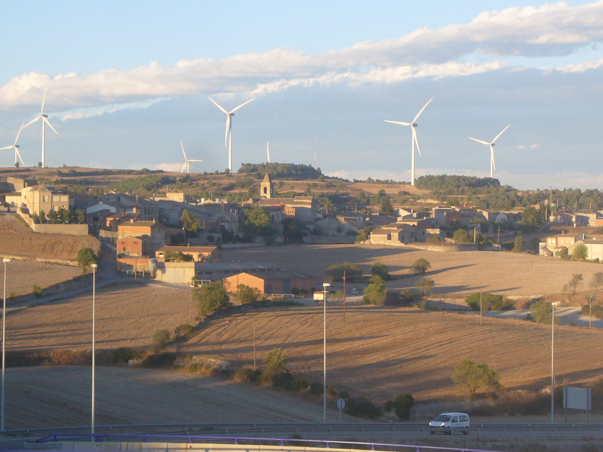 Montmaneu village, with wind farms at the back.